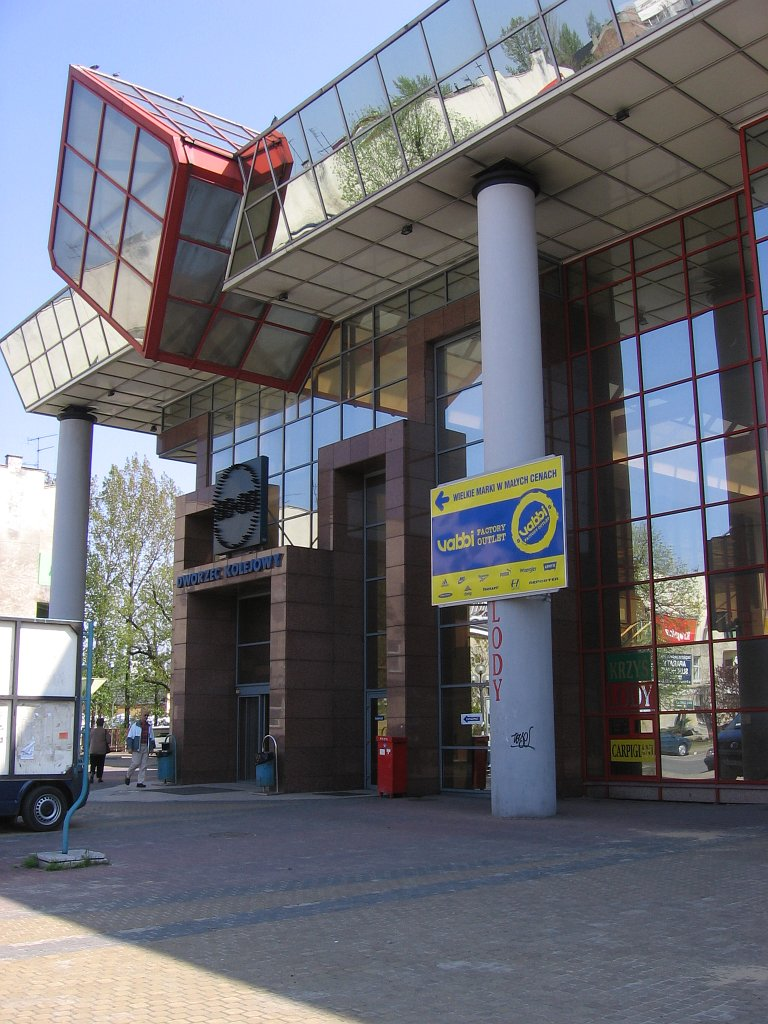 Częstochowa - train station (outside)